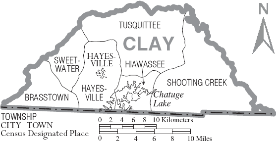 Map of Clay County, North Carolina, United States with township and municipal boundaries